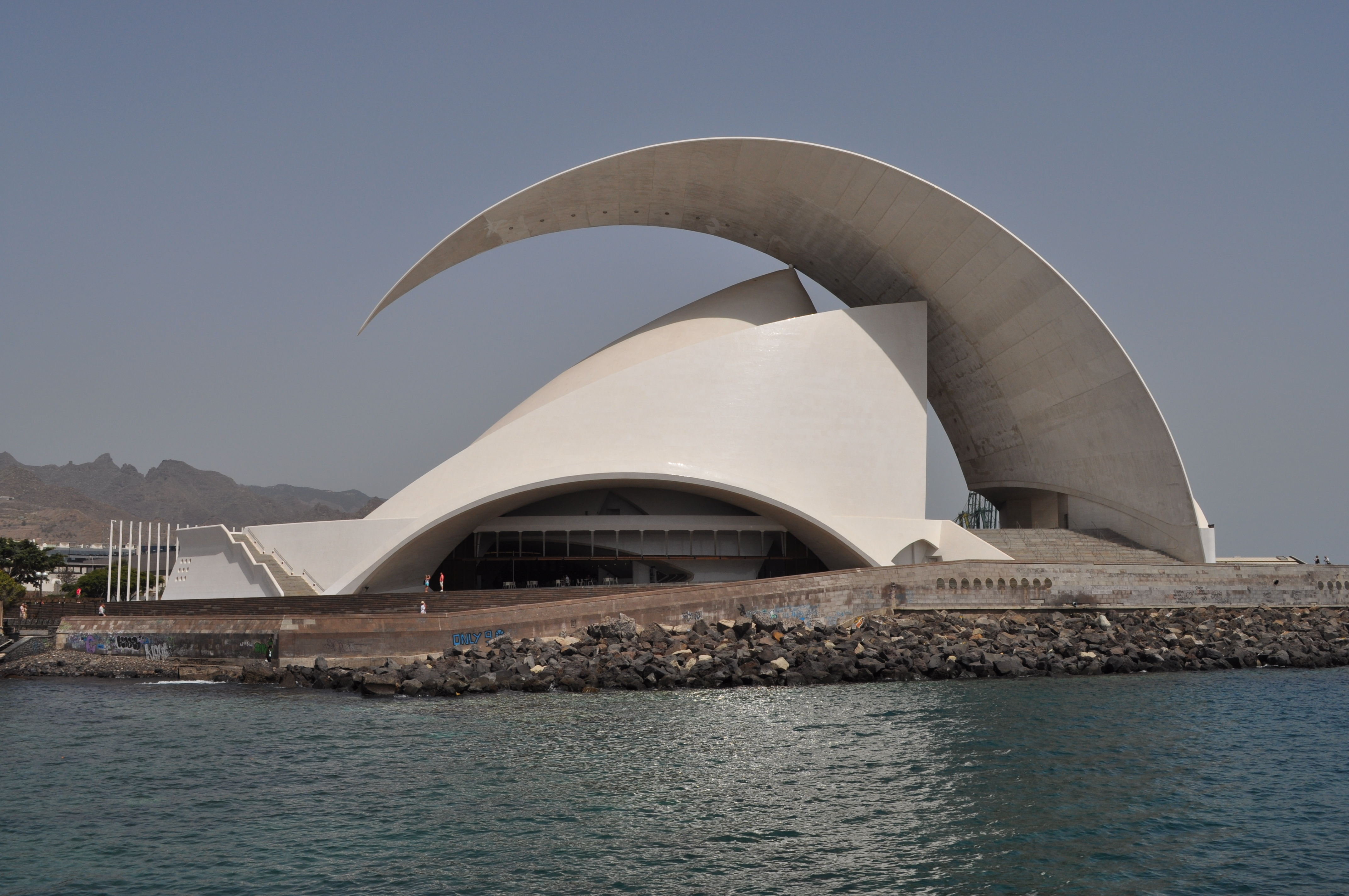 The Auditorio de Tenerife "Adán Martín", a symbol of the city of Santa Cruz de Tenerife, home to the Tenerife Symphony Orchestra and a very important building of Spanish architecture at all.